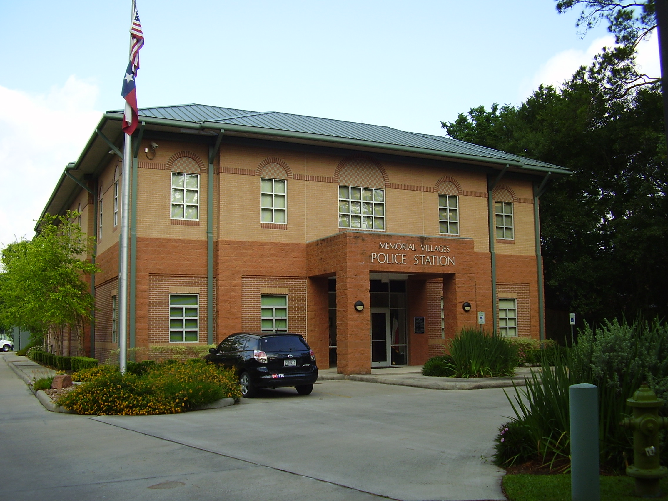 Memorial Villages Police Building in Bunker Hill Village, serving Bunker Hill Village, Hunters Creek Village, and Piney Point Village